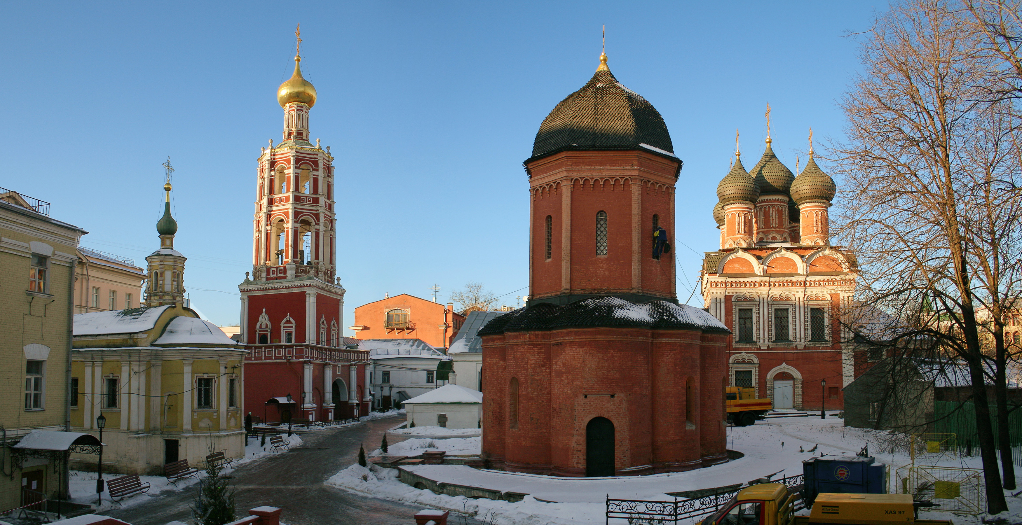 Vysokopetrovsky Monastery